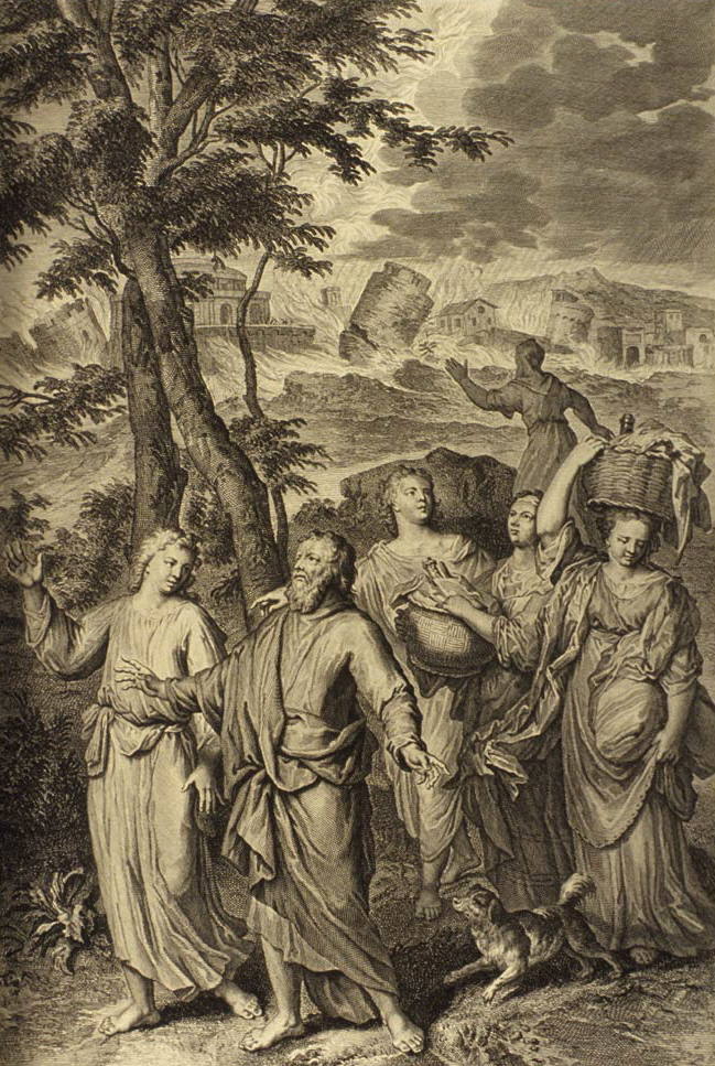 An angel leads Lot out of Sodom and destroys the City; as in Genesis 19:25-26: "And he overthrew those cities, and all the plain, and all the inhabitants of the cities, and that which grew upon the ground. But his wife looked back from behind him, and she became a pillar of salt."; illustration from the 1728 Figures de la Bible; illustrated by Gerard Hoet (1648–1733) and others, and published by P. de Hondt in The Hague; image courtesy Bizzell Bible Collection, University of Oklahoma Libraries